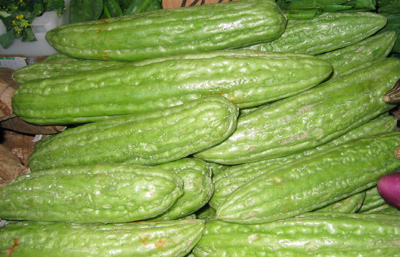 Bitter melonTiếng Việt: Khổ qua, mướp đắngBân-lâm-gú: Khóo-kue. 苦瓜。 (Momordica charantia)